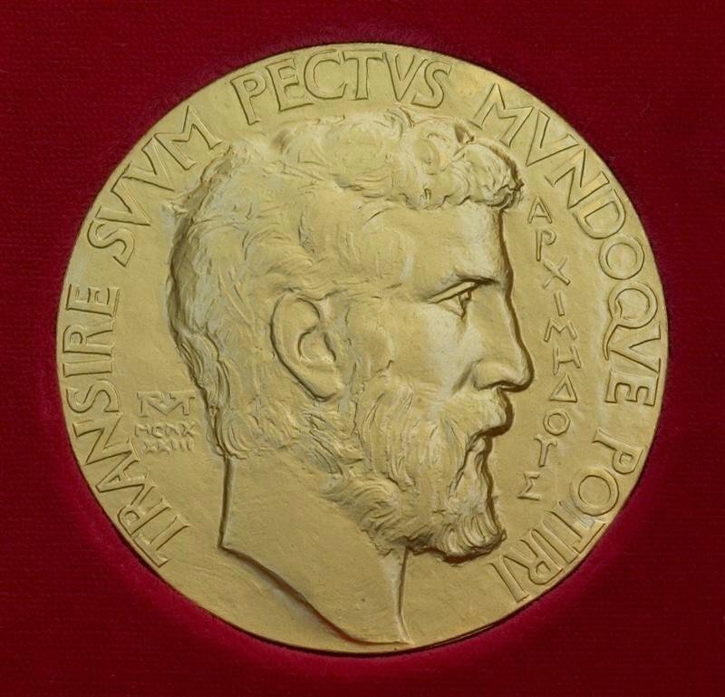 The photo carries no copyright and may be freely used for publications. IMU requests, though, that Stefan Zachow's authorship is duly acknowledged. This is the medal that was declined in 2006 by Grigori Perelman for his work on the Poincaré conjecture. Source: The International Mathematical Union (with more detailed information about copyright at an image description page there)